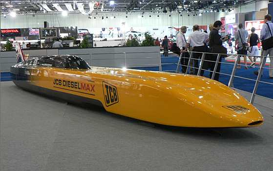 Photo taken by me at the British International Motor Show, London, before the car's departure to the Salt Flats, July 2006